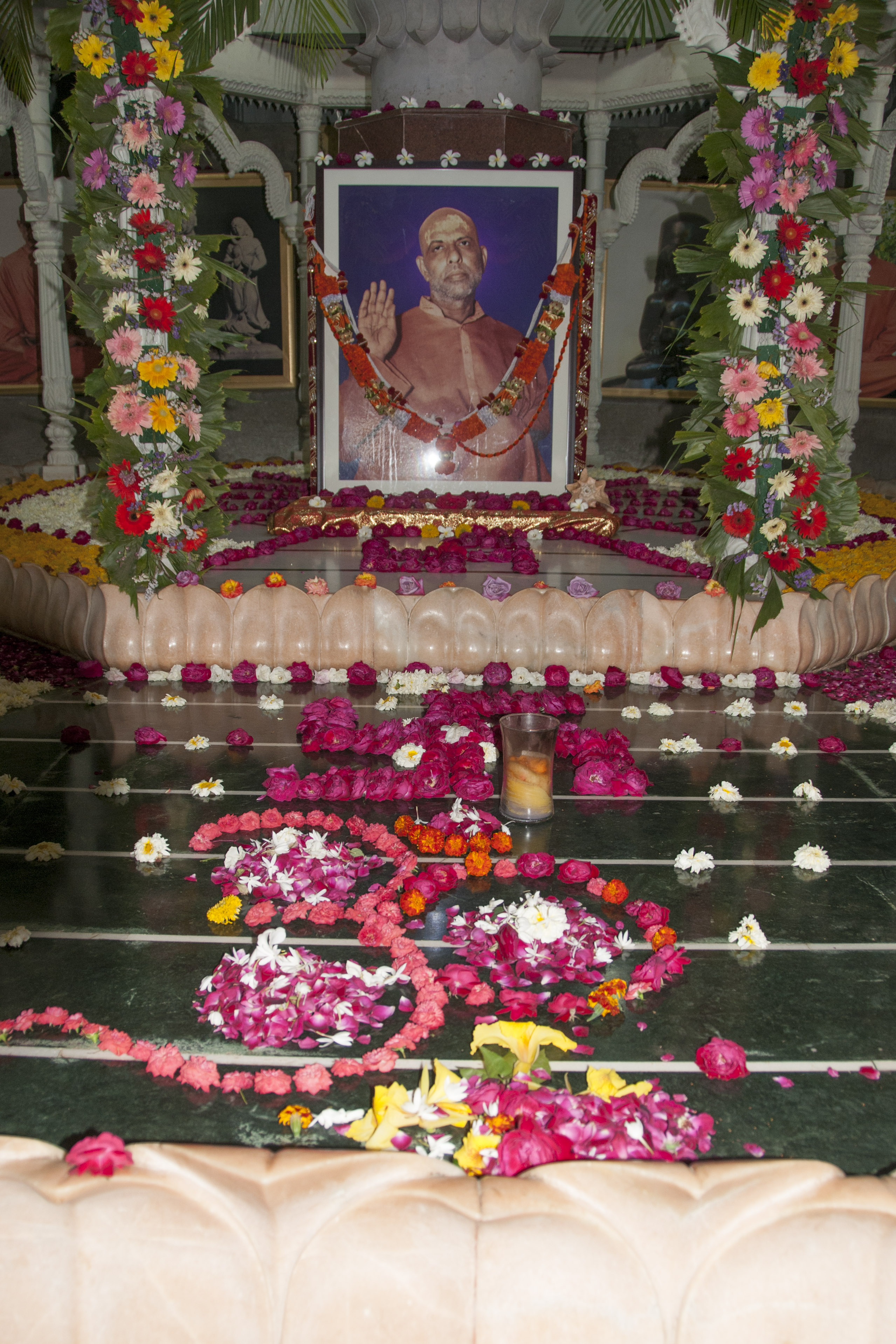 Swami Kripalu (Bapuji) Mahasamadhi shrine at Malav ashram, Gujurat, India.